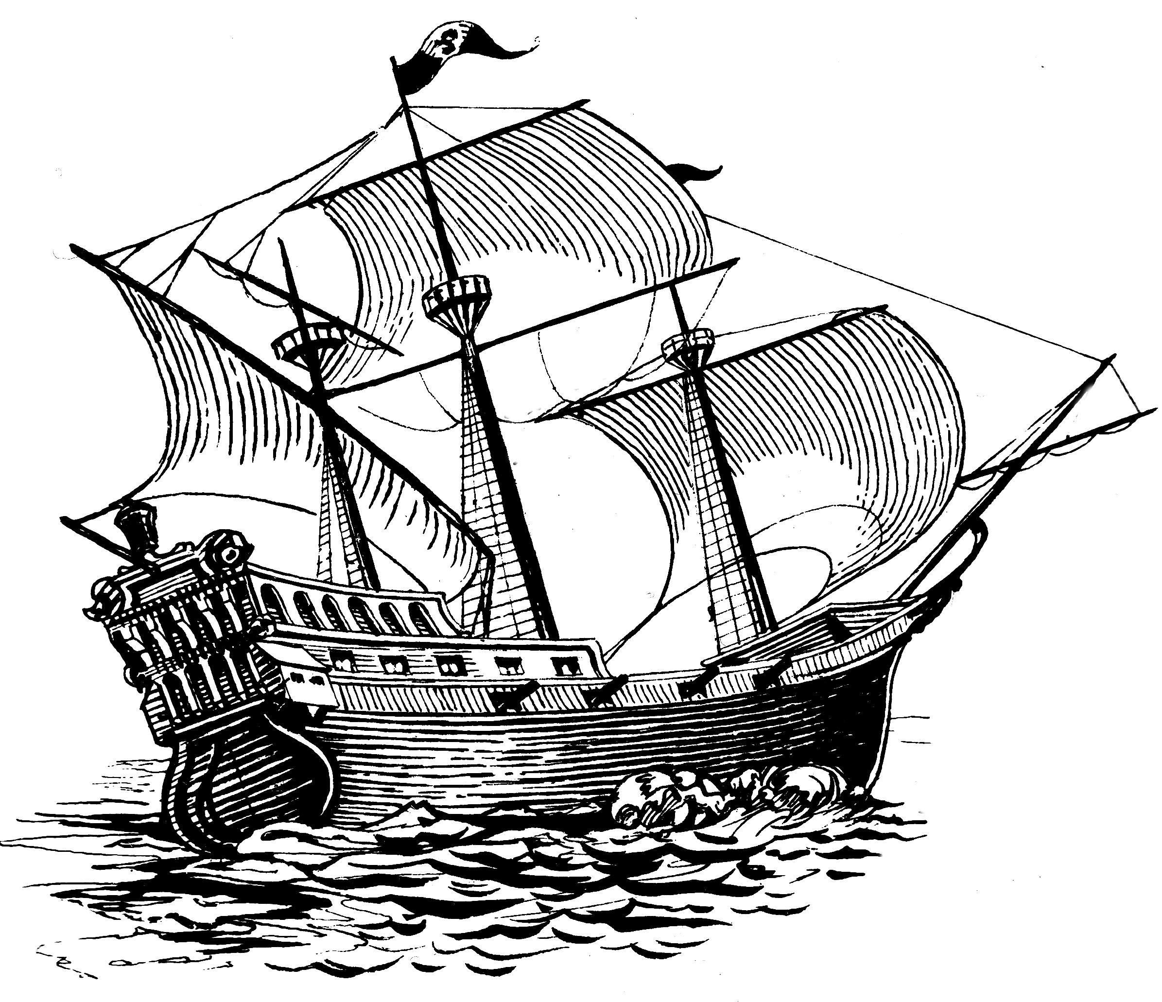 Line art drawing of a galleon.